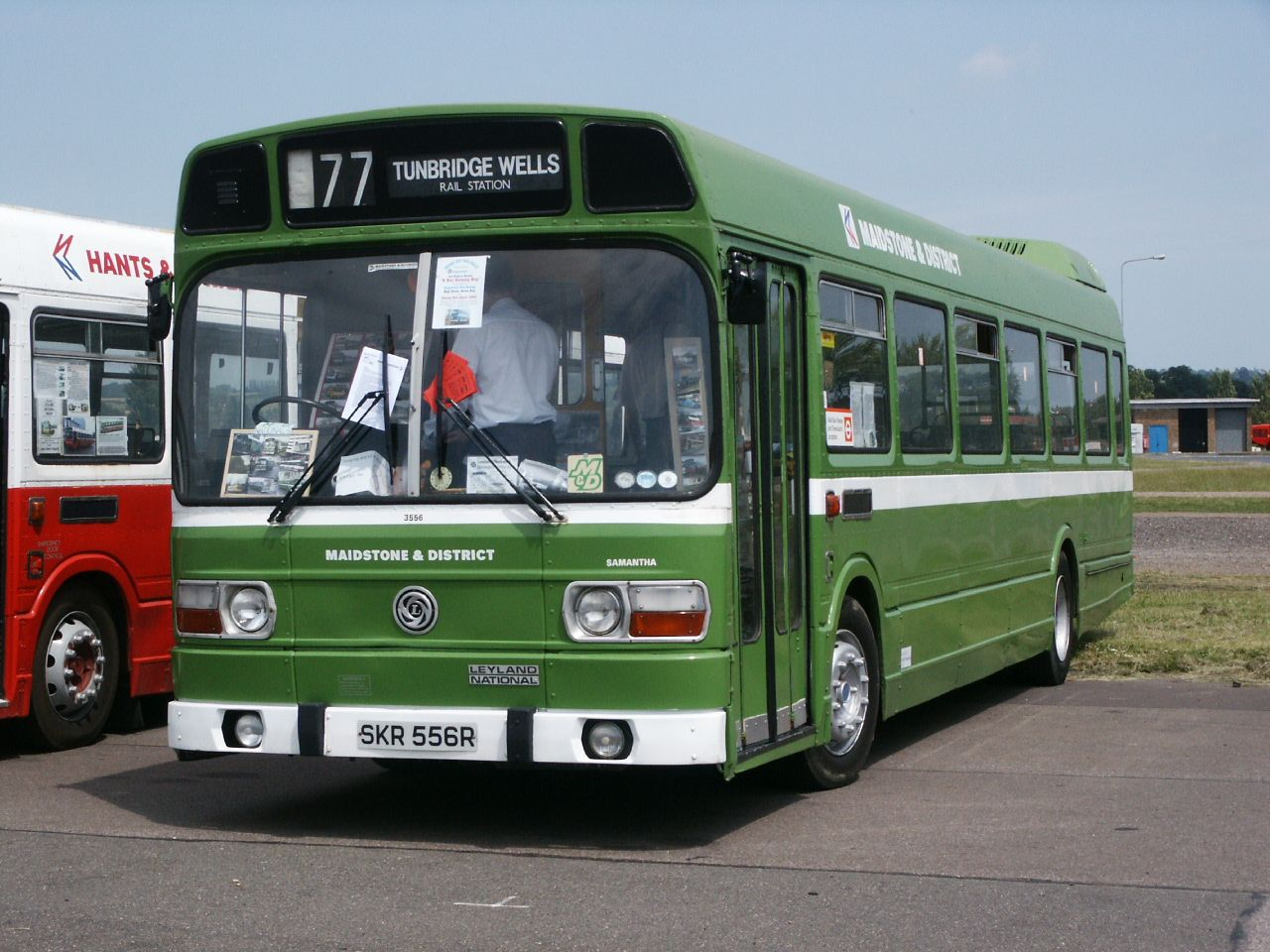 SKR556R 290603 CPS